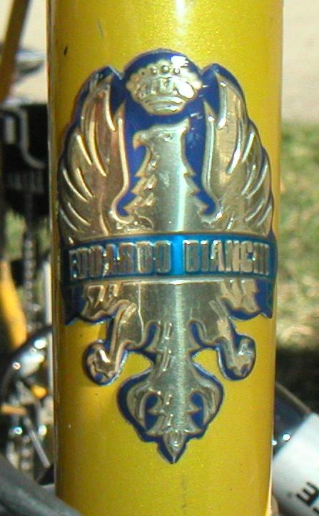 Taken by Andrew Dressel